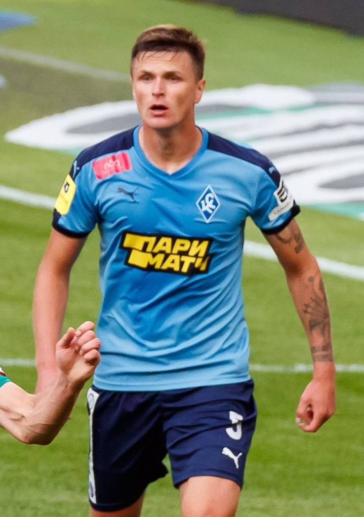 Vitali Lystsov with PFC Krylia Sovetov Samara in a game against FC Lokomotiv Moscow.